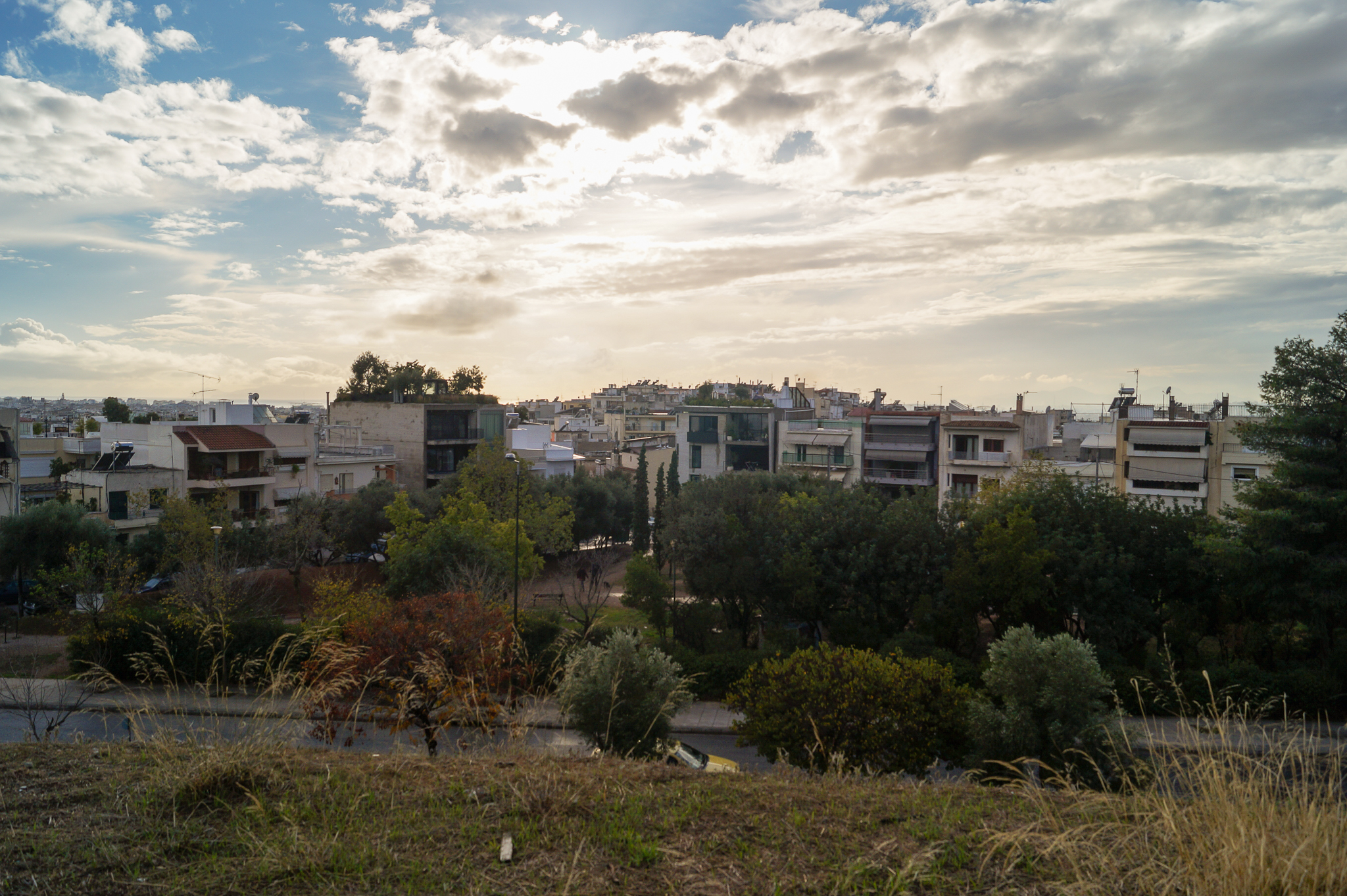 Athens, Greece: View on Apollonios Square of Asyrmatos.